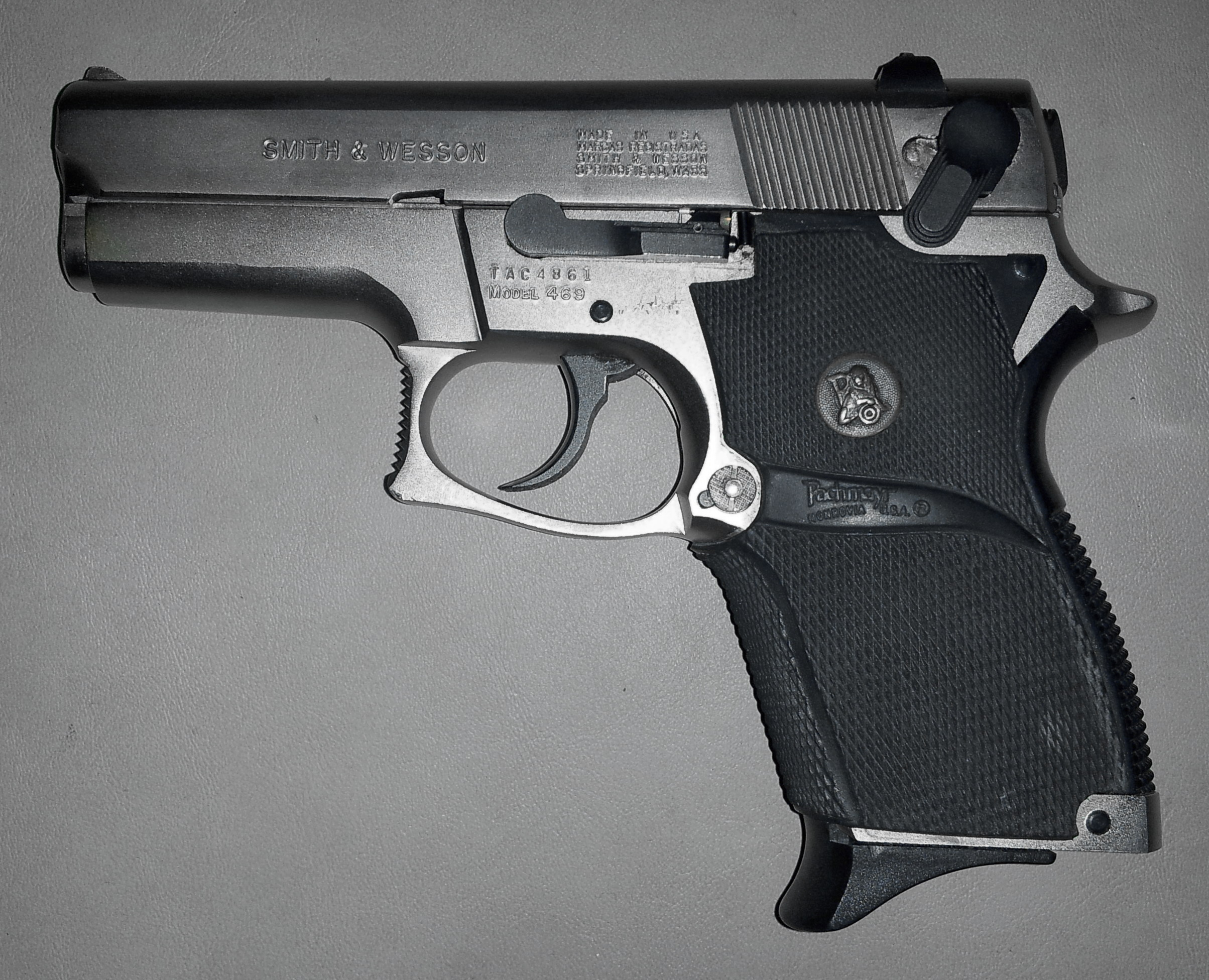 Smith & Wesson Model 469, satin nickle plated slide, aluminum alloy frame, 9mm Luger. 12 shot, Pachmayr grips. This is a compact version of the Model 59, with a shorter barrel and shortened grip frame. Can use full length model 59 magazines. This one is a factory custom nickle finish limited production, standard model is blued. Original grips were hard black plastic panels.